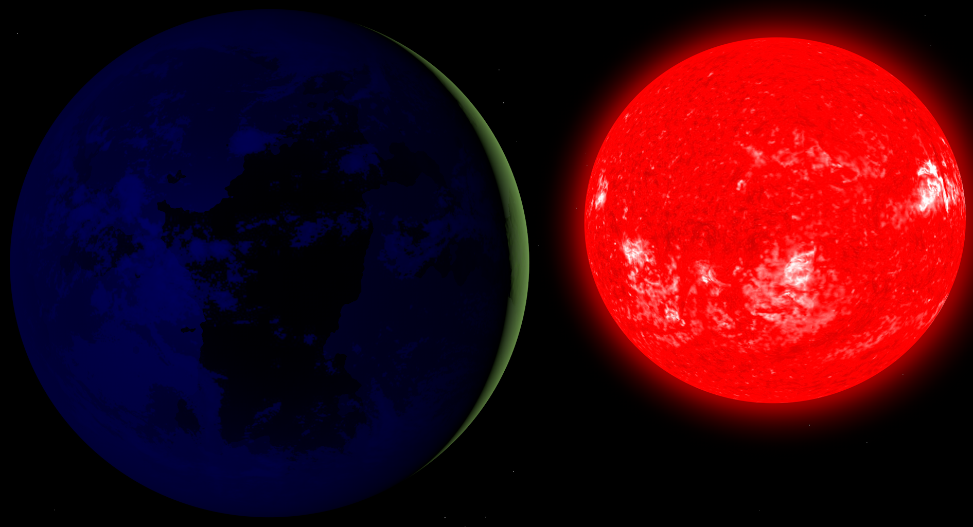 An artist's impression of Kepler-438b.